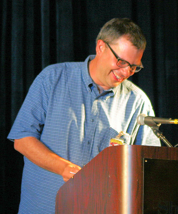 Author: Peter Verrant hosted on Flickr [1] Released under Creative Commons 2.0. Cropped and lightened by Appraiser.